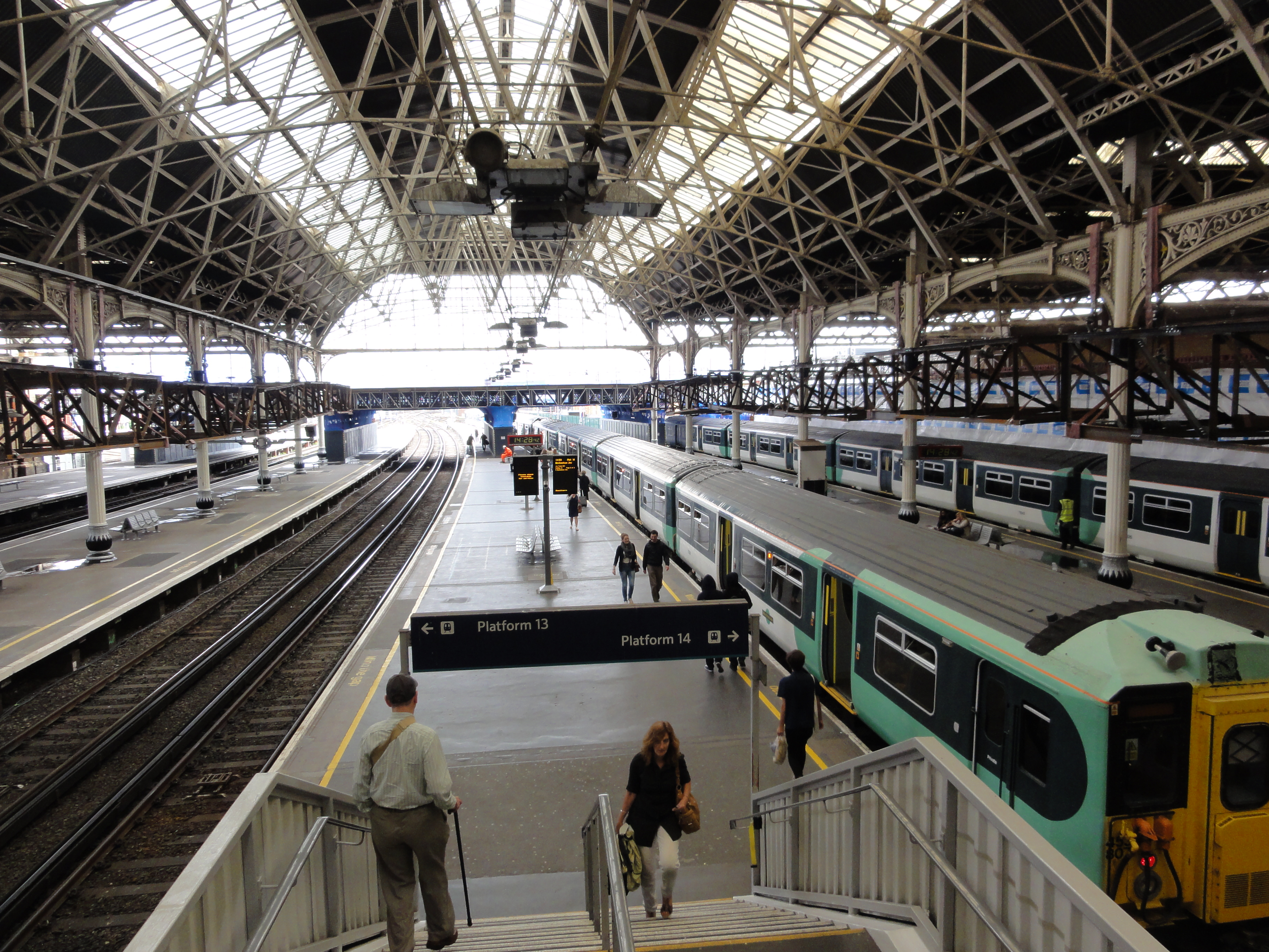 London Bridge